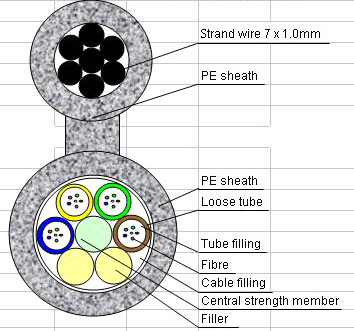 optical fiber cable